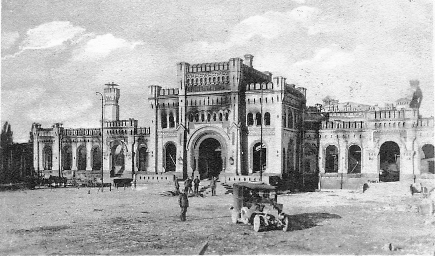 Train Station (ca 1915), Brest, Belarus